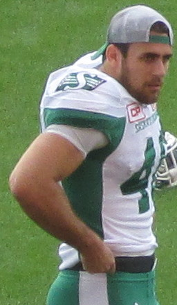 Saskatchew Roughriders Warmup October 7 2017 BMO Field